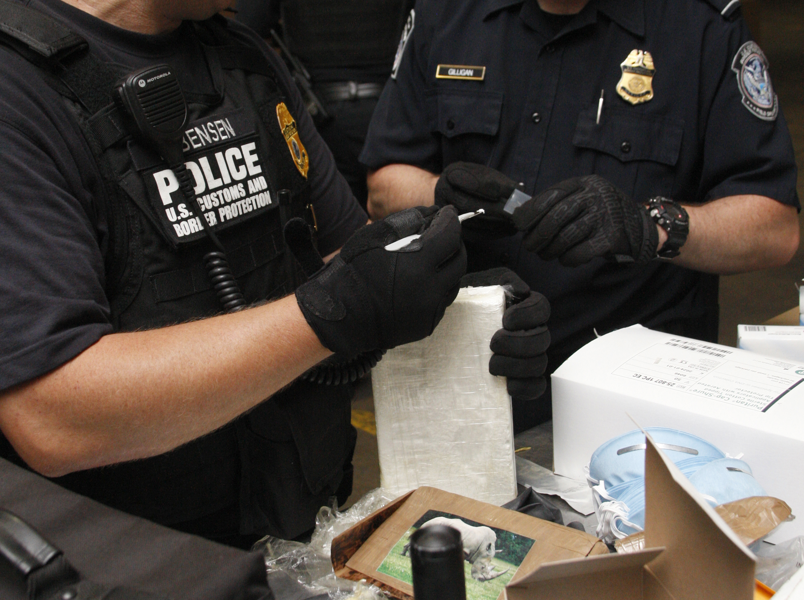 U.S. Customs and Border Protection and Homeland Security Investigations led a multi-agency inspection of the MSC Gayane that resulted in the seizure of about 35,000 pounds of cocaine discovered in seven shipping containers June 17, 2019. The cocaine seizure is a CBP record.